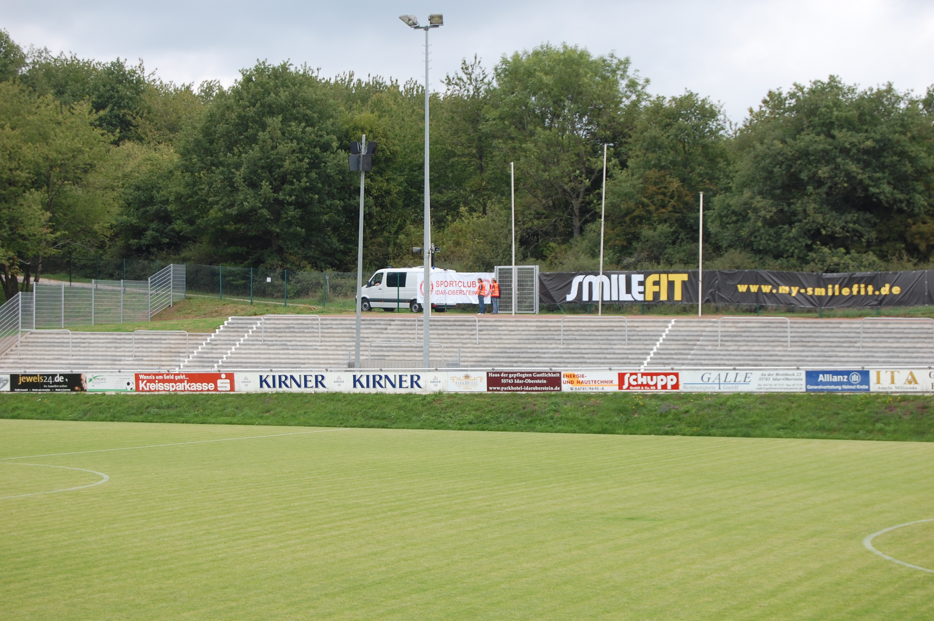 Standing room at stadium "Im Haag" in Idar-Oberstein, Rhineland-Palatinate, Germany